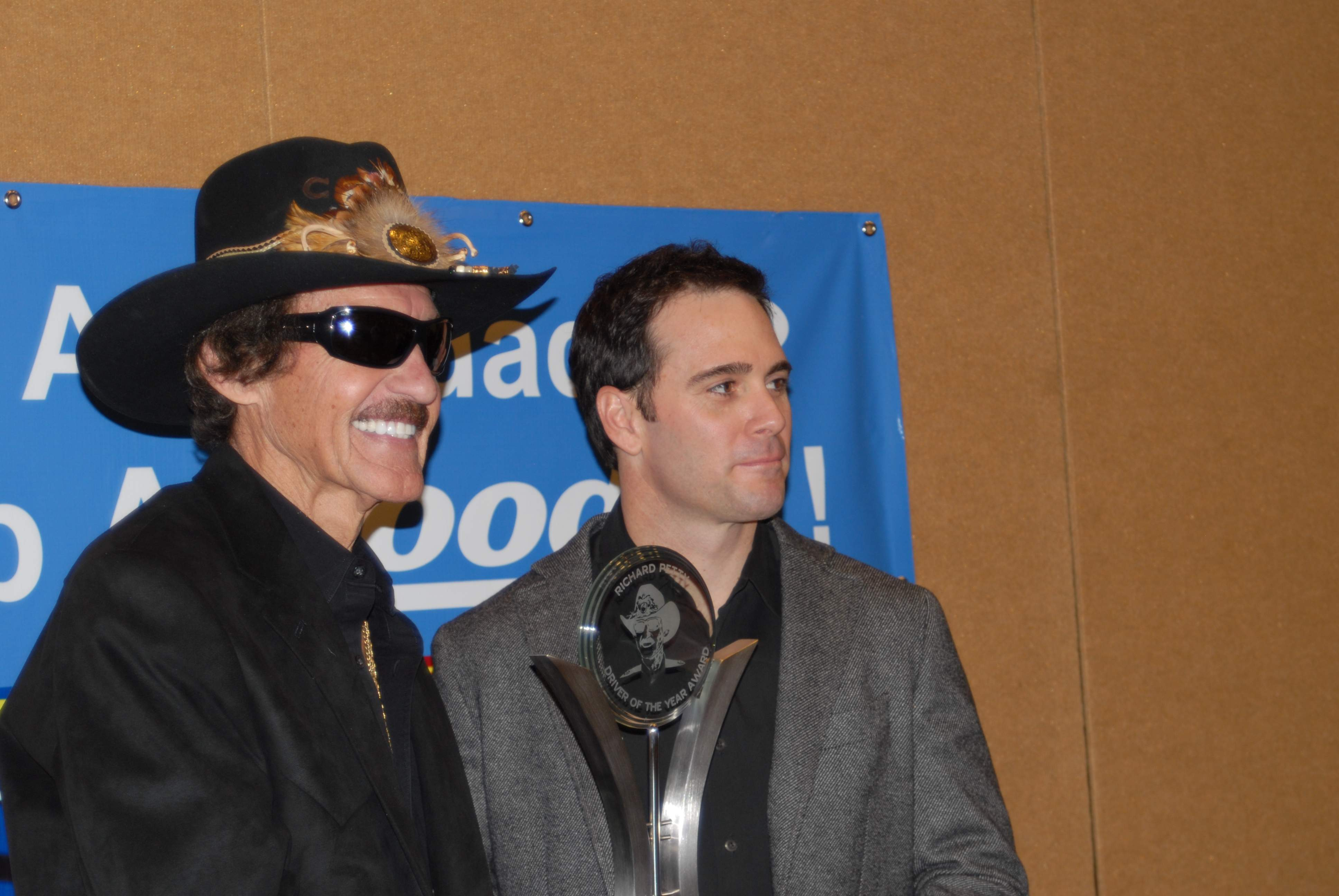 NASCAR champions Jimmie Johnson and Richard Petty at a National Motorsports Press Association event in January 2010. Photograph by Ted Van Pelt.